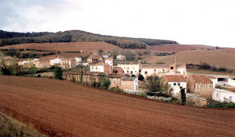 View of Villarejo in La Rioja (Spain)